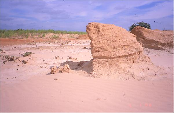 Yardang at the Lea-Yoakum Dunes near Meadow, Texas. USDA photo